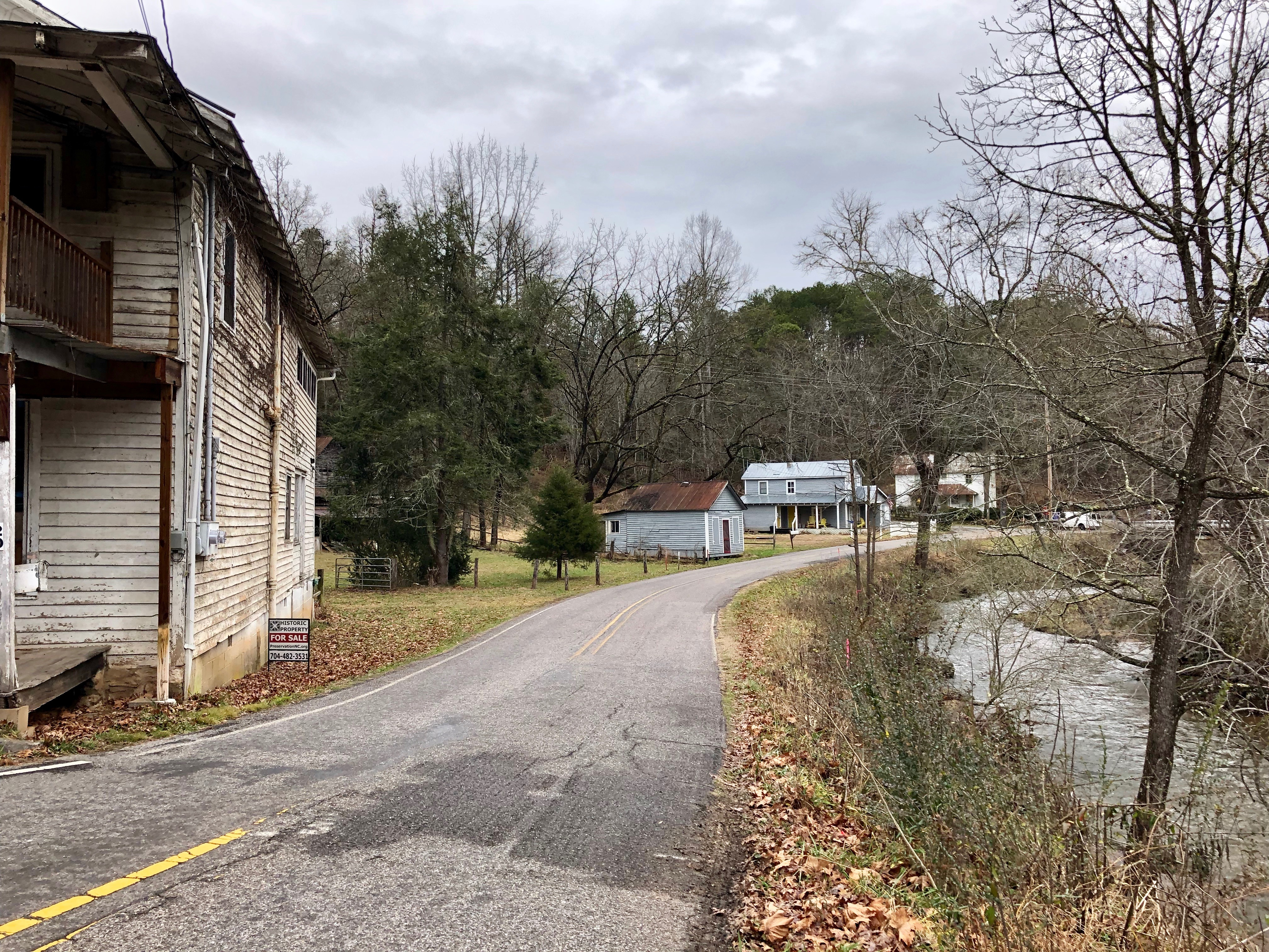 This is a view of West's Mill Road in Cowee, North Carolina, the center of the Cowee-West's Mill Historic District. Visible, from left to right, are the edge of the C.N. West General Store, the former West's Mill Post Office, the Aunt Vonnie West House, and the Will Morrison House. This part of the district developed during the latter half of the 19th Century and into the early 20th Century, and was listed on the National Register of Historic Places in 2001.